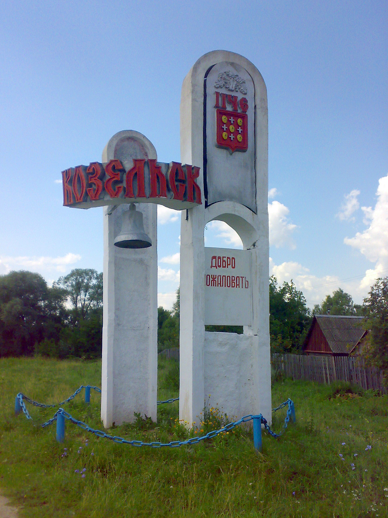 took this image using my mobile in July 2008. Entrance sign to the town of Kozelsk, Kaluga Region, Russia.